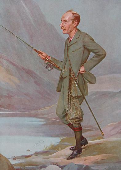 Caricature of Sydney Buxton, 1st Earl Buxton. Caption read "The Post-Master General".